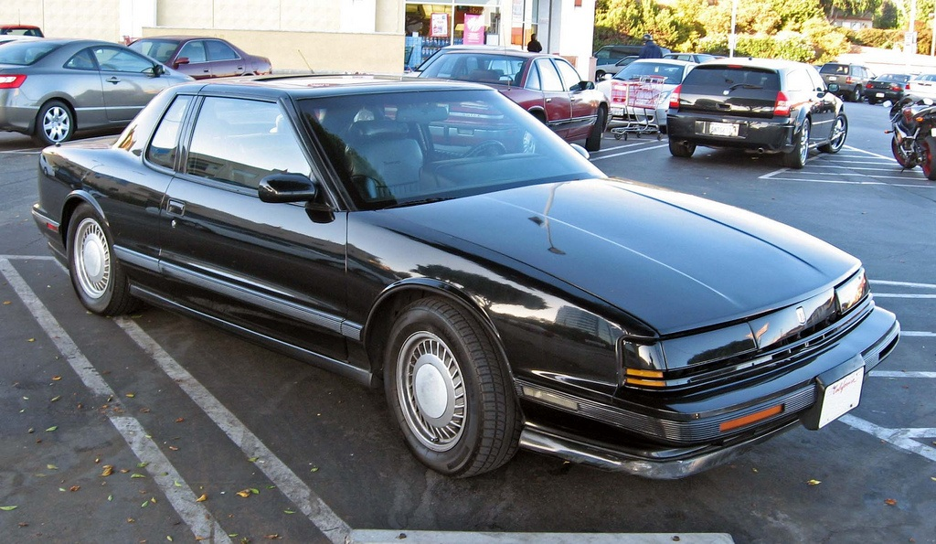 black 1992 Oldsmobile Toronado personal luxury coupe